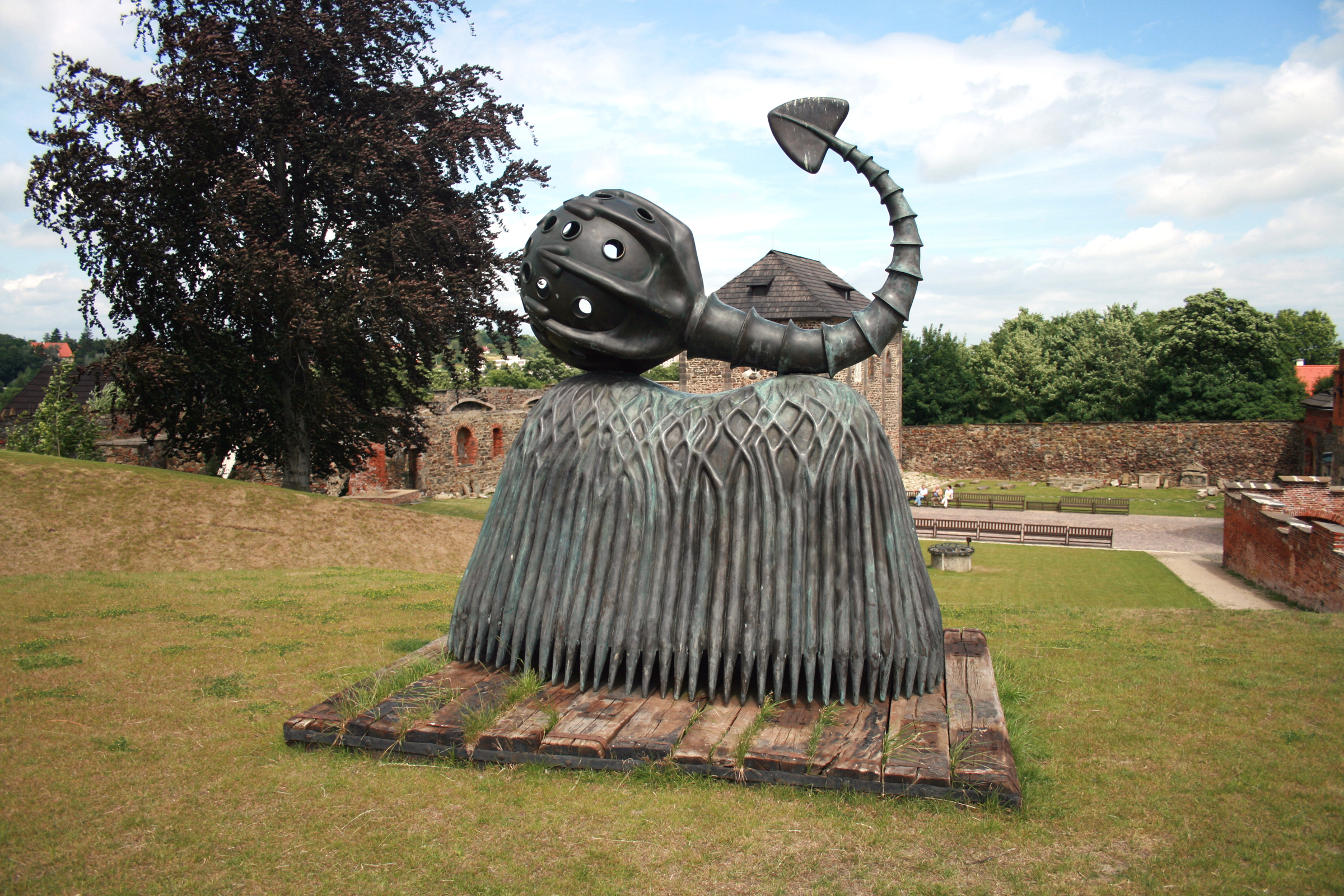 Sculpture “Sepia”, author Jaroslav Róna, in Cheb castle, Czech Republic